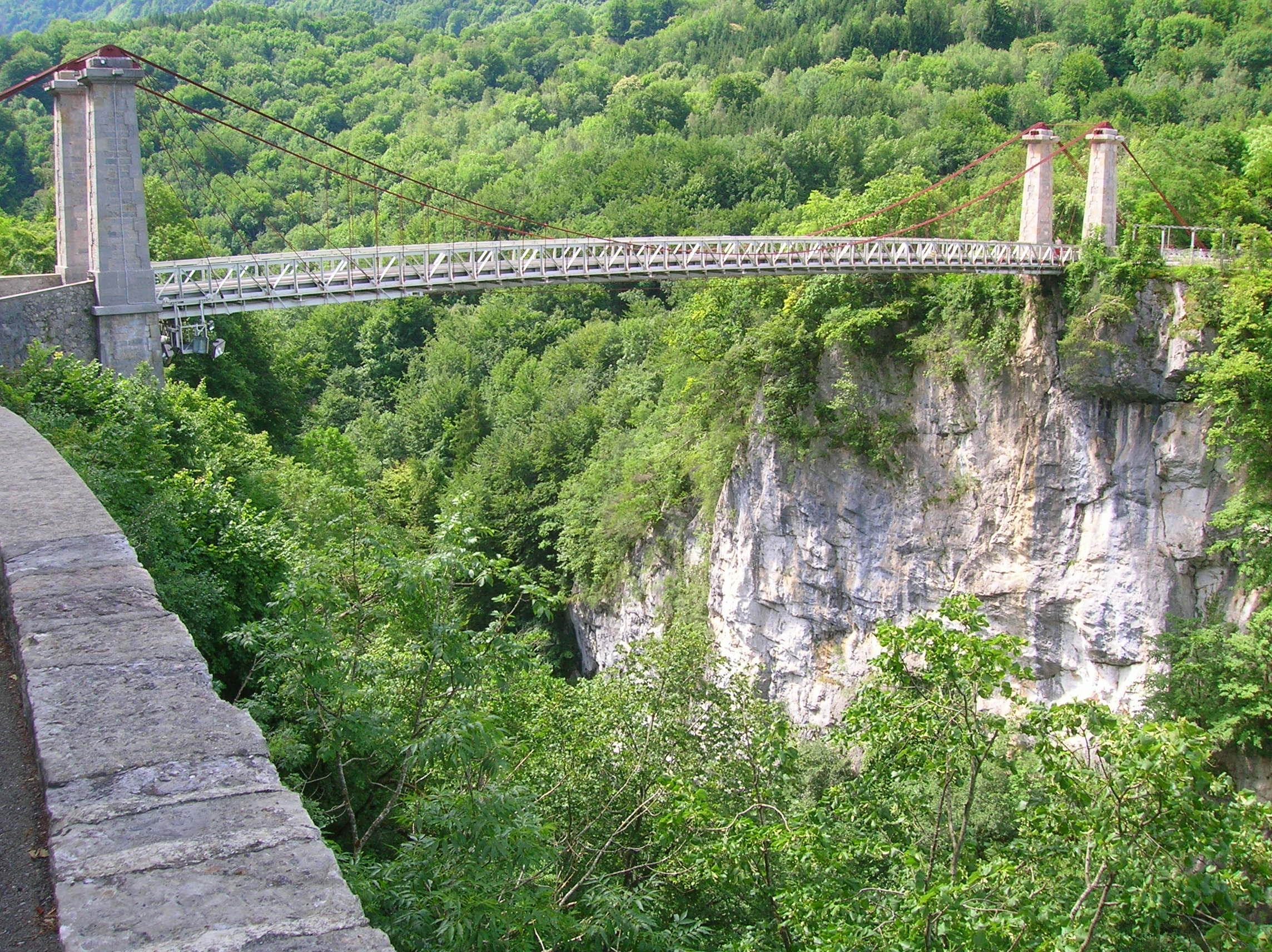 Abîme bridge between Cusy and Gruffy (Haute-Savoie)